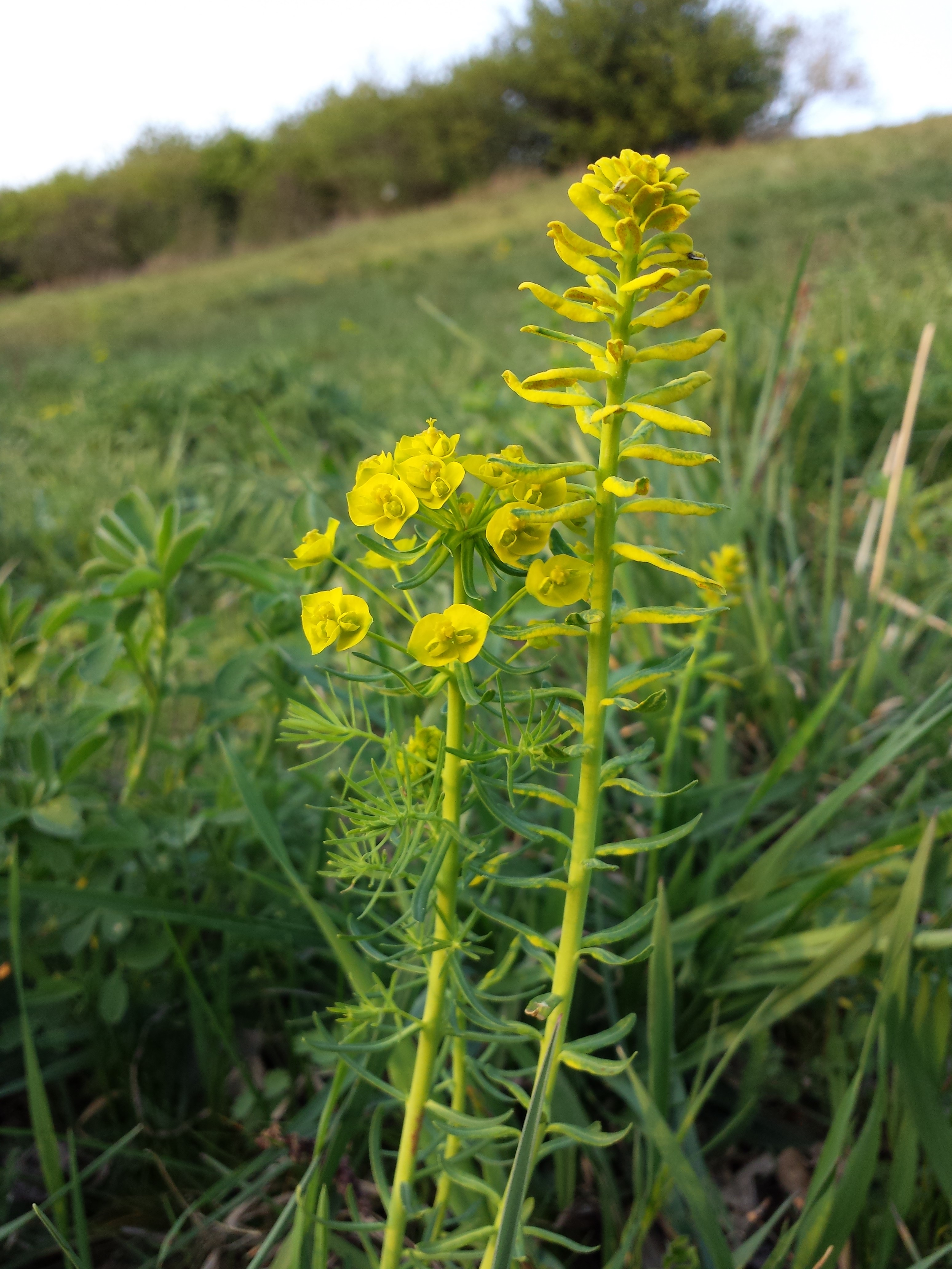 Habitus; on the left an healthy individual, at a right an individual infected by Uromyces pisi-sativi Taxon: Euphorbia cyparissias (sensu Fischer et al. EfÖLS 2008 ISBN 978-3-85474-187-9) Location: Neue Donau, Vienna-Floridsdorf - ca. 160 m a.s.l. Habitat: dry ruderal meadows